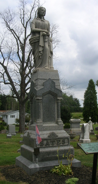 Grave of the Martin Van Buren Bates family, Mound Hill Cemetery, Seville, Ohio. Here lies Martin, his wife Anna Haining Bates, their son who died as an infant, and their daughter who was still-born. The figure is reportedly fashioned after Anna.